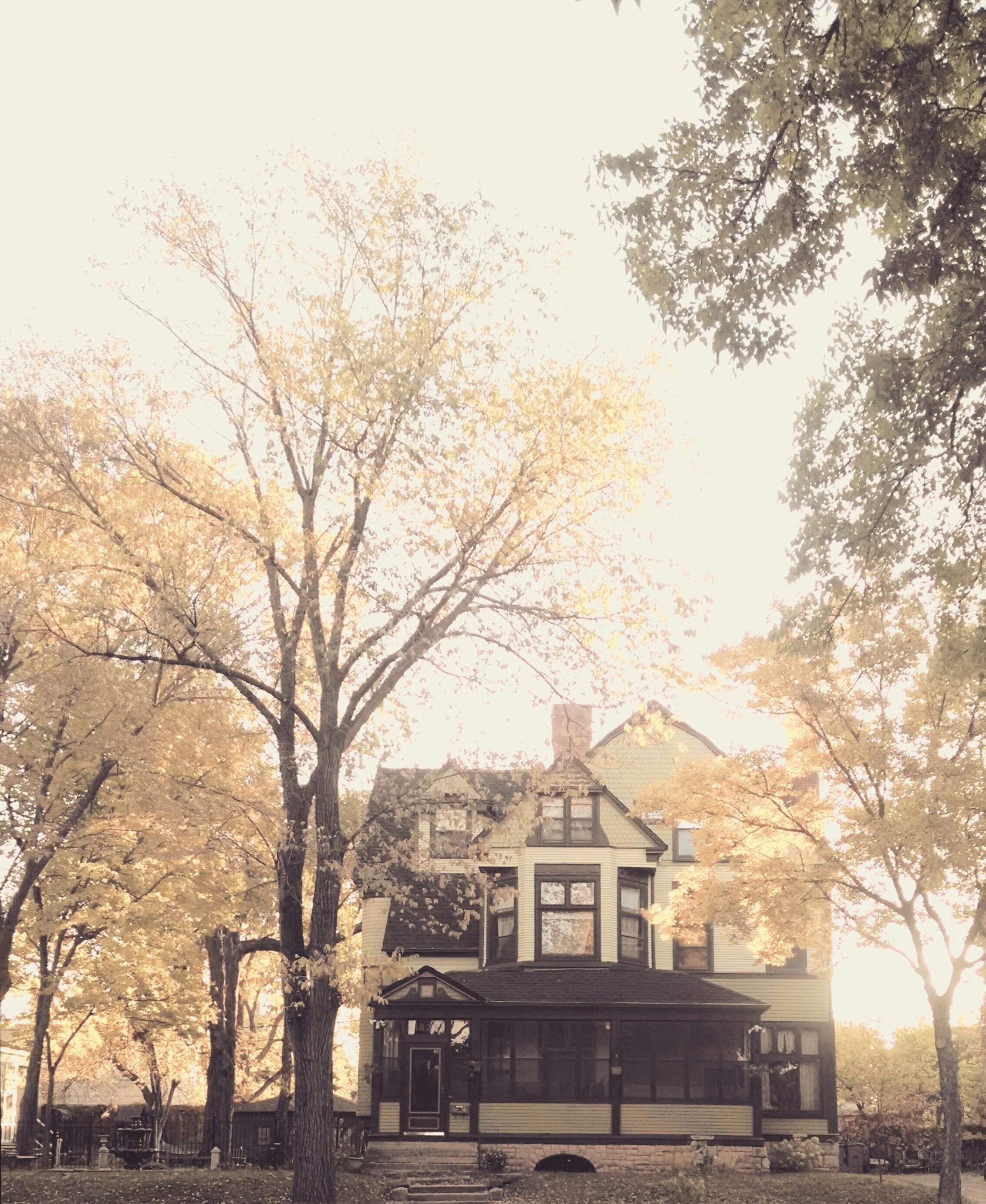 1823 Park Ave Minneapolis, MN - Harrington mansion